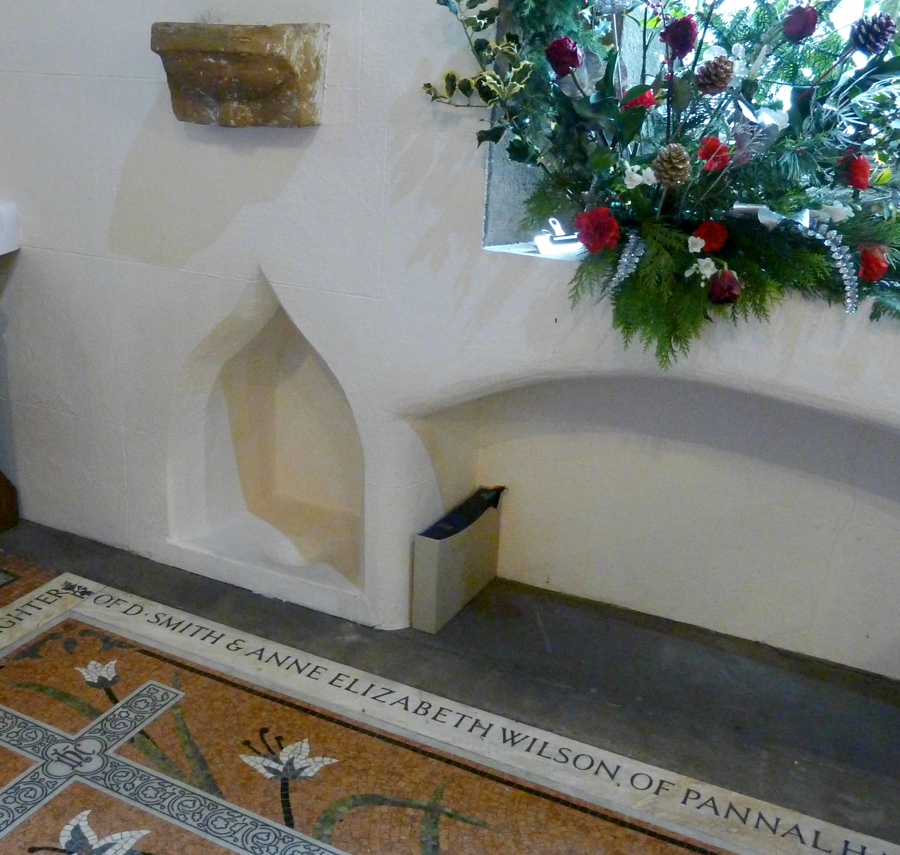 St Roberts Church, Pannal, North Yorkshire, England. Piscina and top of sedilia in south wall of chancel. They are low on the wall because the floor has been raised by 3 feet to allow for ledgers and graves. The object on the wall above the piscina appears to be a lavabo which must have been reset in the wall after the floor was raised (previously the position would have been too high). However the English Heritage listing description suggest that it is a corbel which has been reset, and that it may have been used for the lenten veil. There is a matching corbel on the north side of the chancel.